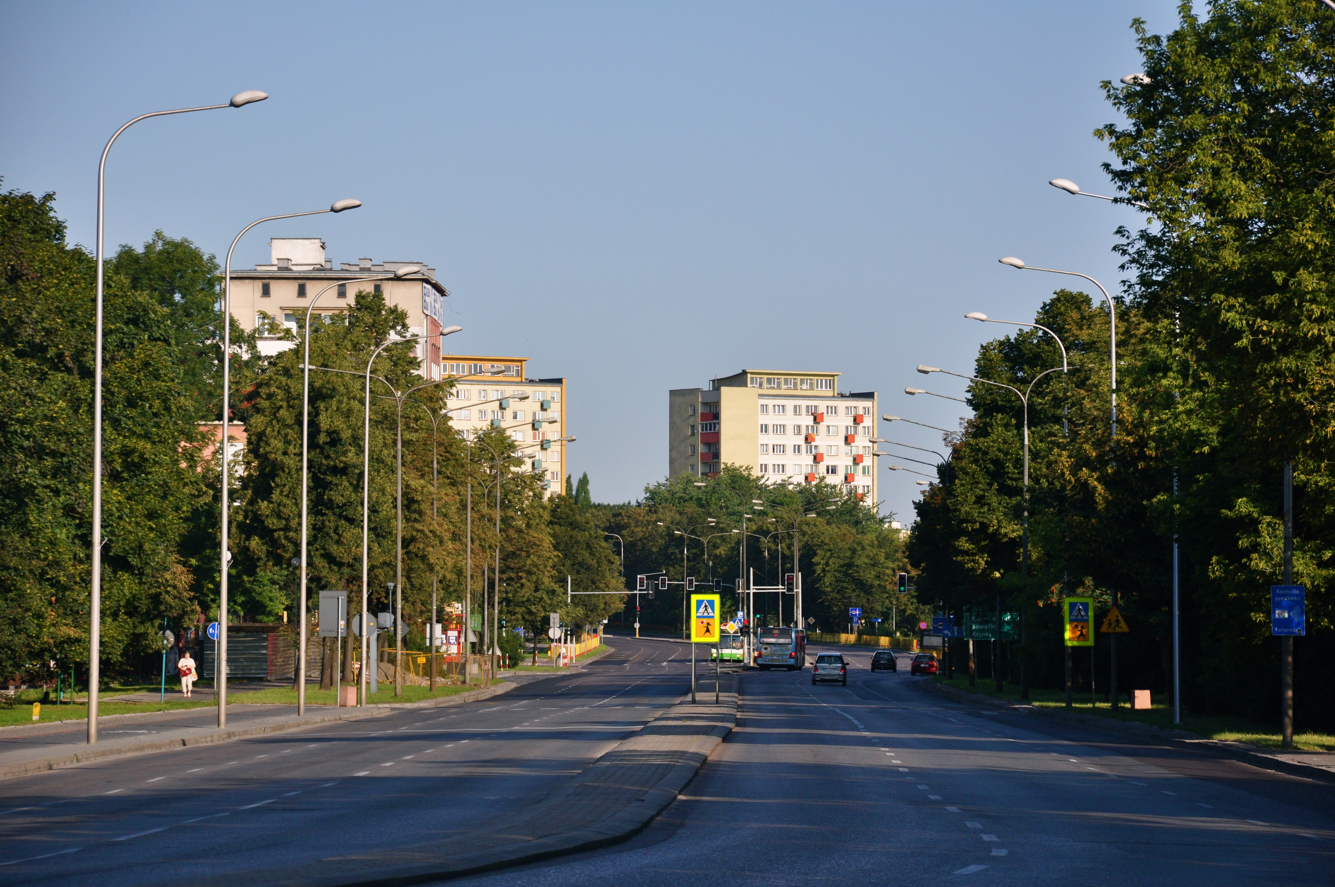 Pilsudski Avenue in Bialystok, Podlaskie Voivodeship.